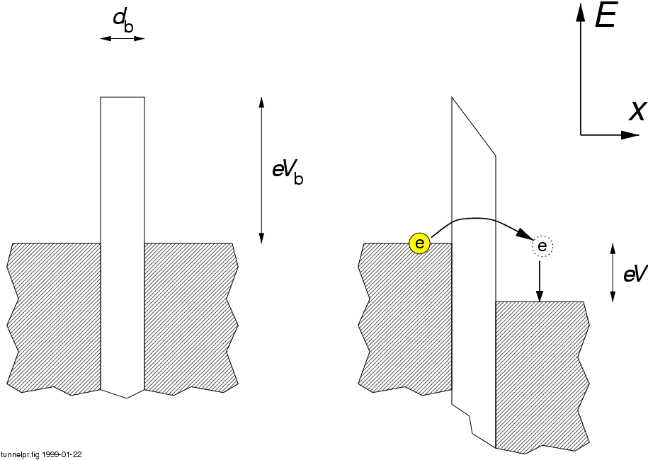 Schematic representation of an electron (e, right) tunnelling through a barrier of "height" (vertical dimension is energy) e*V_b and thickness (horizontal dimension is spatial) d_b. e is the elementary charge, -1.6E-19 Coulomb, V is the bias voltage leading to a current flowing between the right and the left "electrode" (side of the barrier).